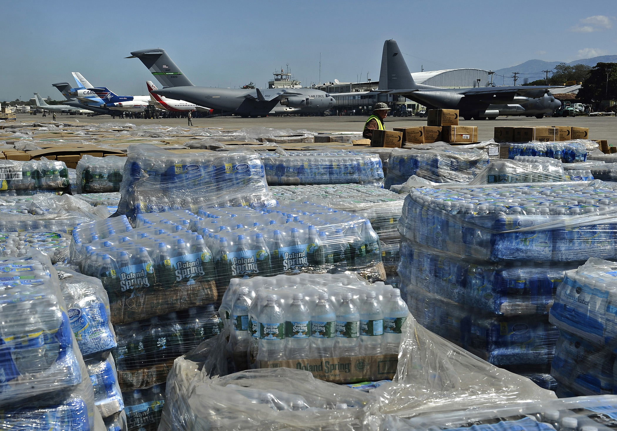 PORT-AU-PRINCE, Haiti (Jan. 28, 2010) Pallets of humanitarian aid and bottled water are lined up in a staging area just off the tarmac of Aerodome de Jacmel, an airport in Port-au-Prince, while cargo planes from various nations sit at the airport's terminal facility. The multi-purpose amphibious assault ship USS Bataan (LHD 5) and the amphibious dock landing ships USS Fort McHenry (LSD 43), USS Gunston Hall (LSD 44) and USS Carter Hall (LSD 50) are participating in Operation Unified Response as the Bataan Amphibious Relief Mission by providing military support capabilities to civil authorities to help stabilize and improve the situation in Haiti in the aftermath of a 7.0 magnitude earthquake on Jan. 12, 2010. (U.S. Navy photo by Mass Communication Specialist 2nd Class Kristopher Wilson/Released)